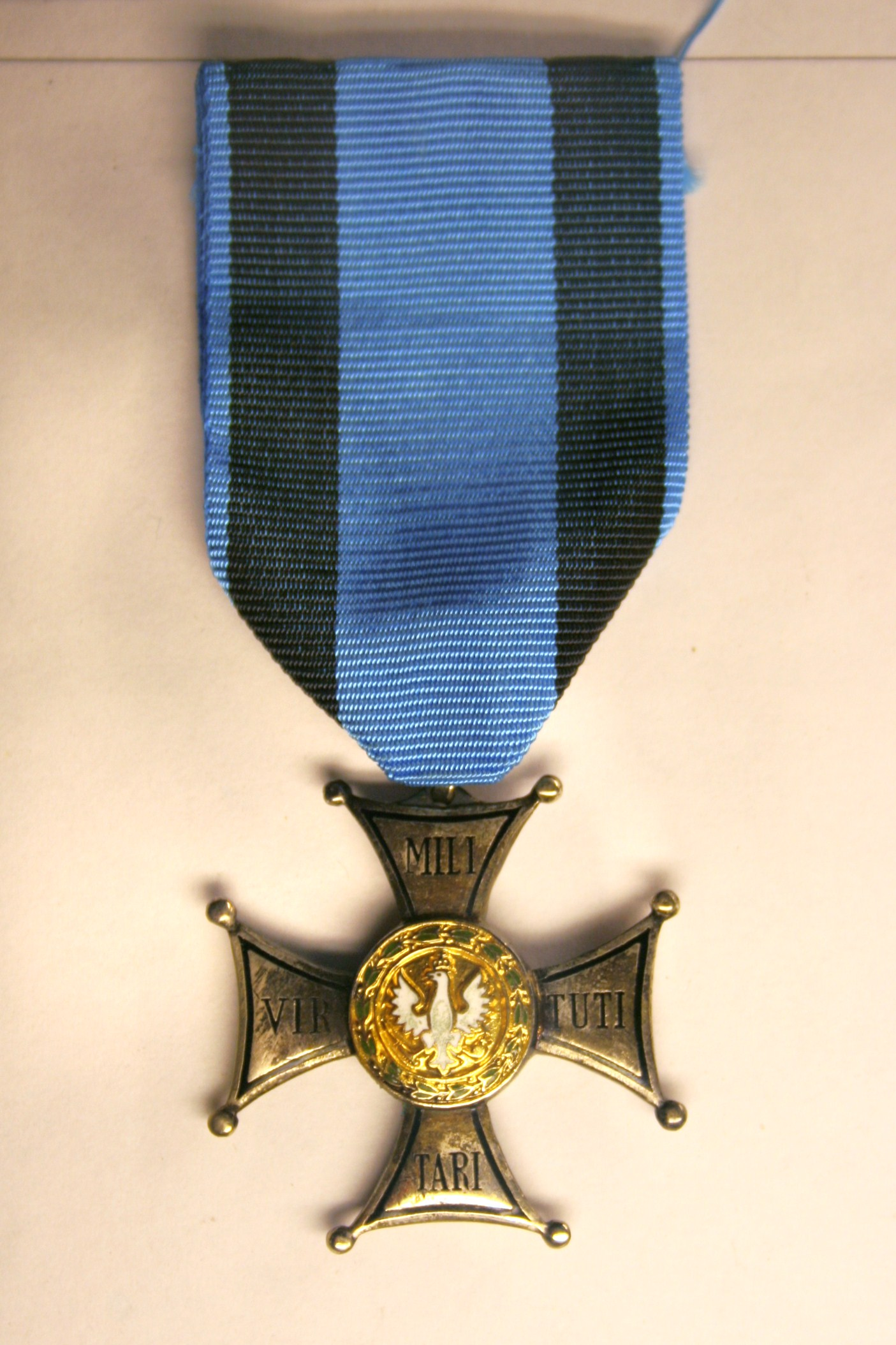 Collections of Museum of Coastal Defence.